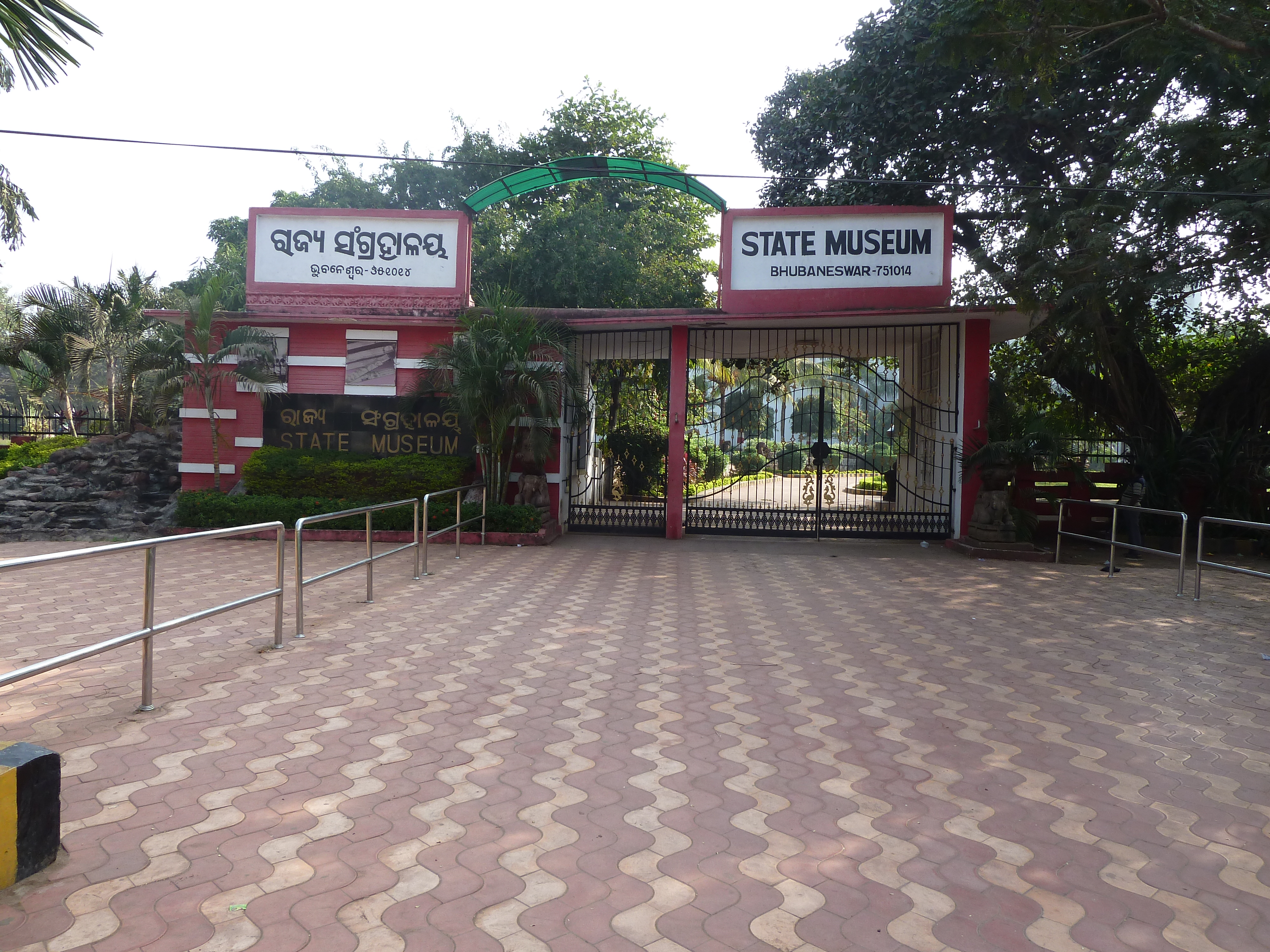 The entrance of State museum, Bhubaneswar, India.